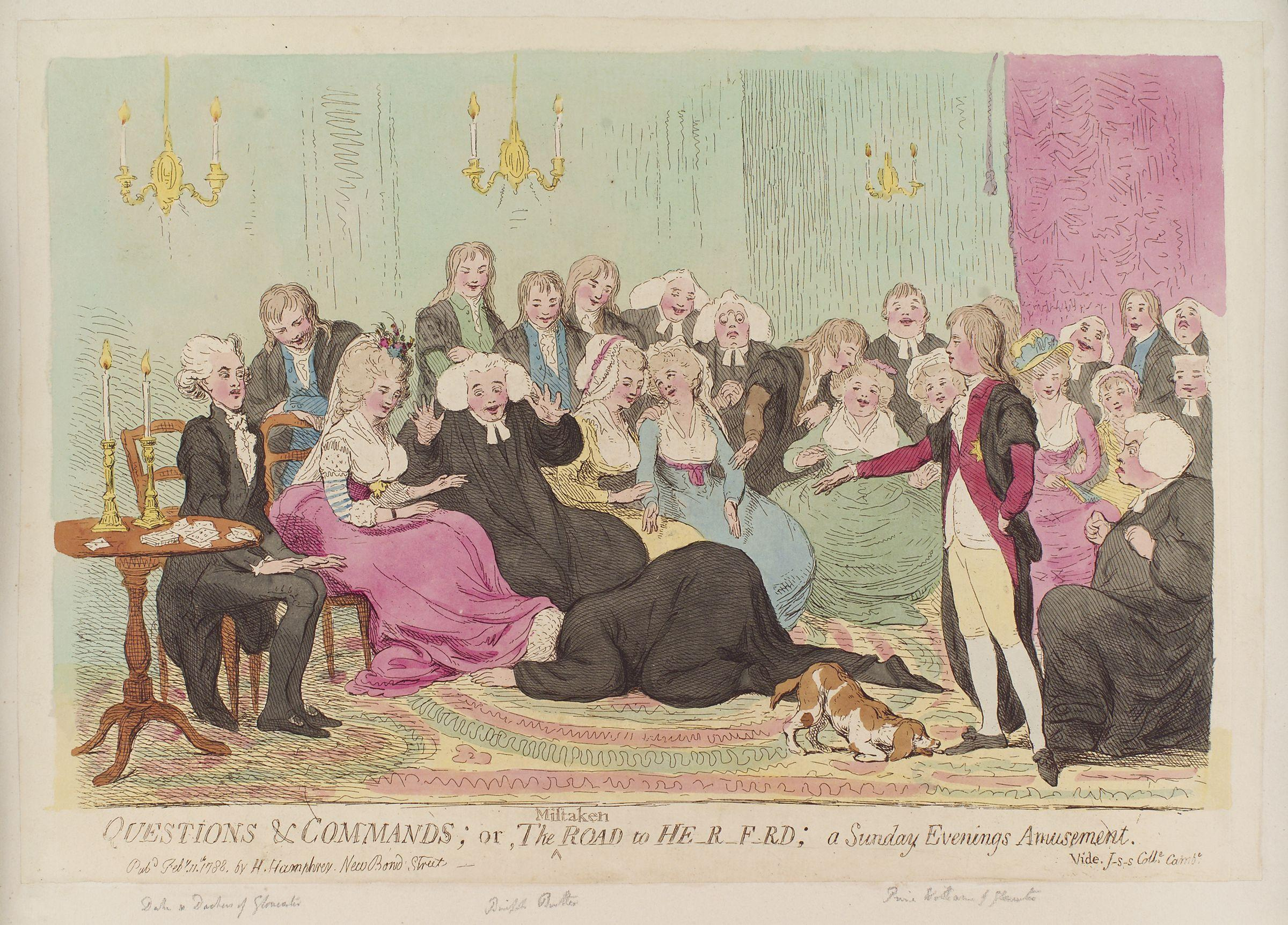 Questions and commands; or, the mistaken road to He-r-f-rd; a Sunday evenings amusement, by James Gillray (died 1815), published 1788. Men and women playing parlor game. Judge with his head under the edge of a woman's skirts (kissing her foot?). All images in this batch have been confirmed as author died before 1939 according to the official death date listed by the NPG.